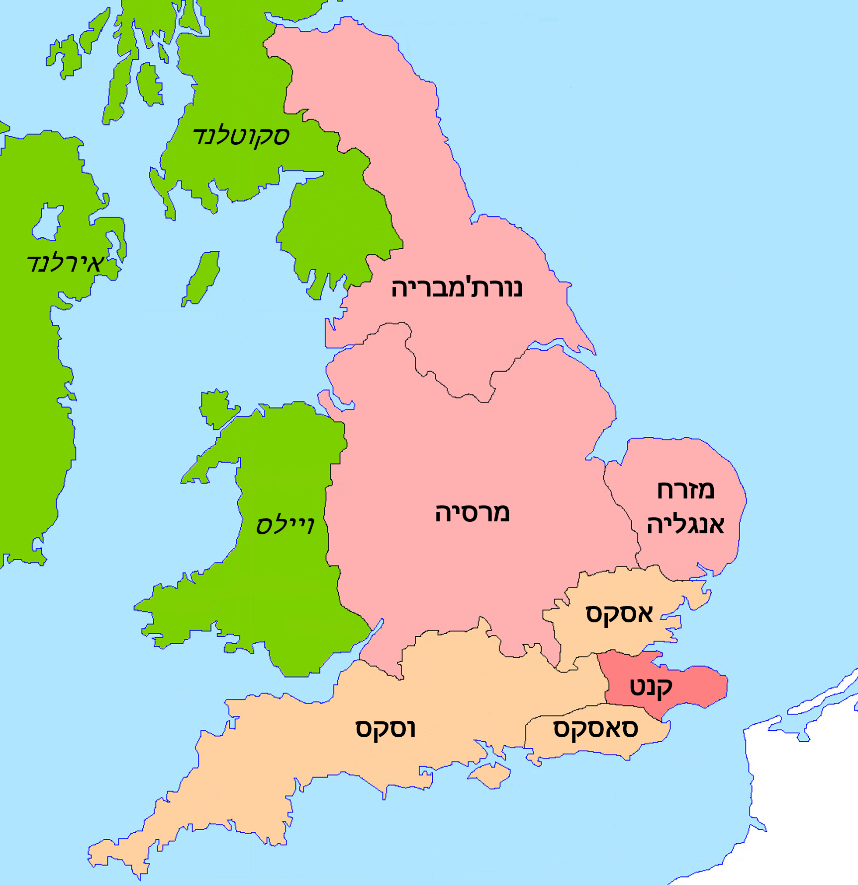 Map of the main Anglo-Saxon kingdoms in 802 (With Hebrew names)